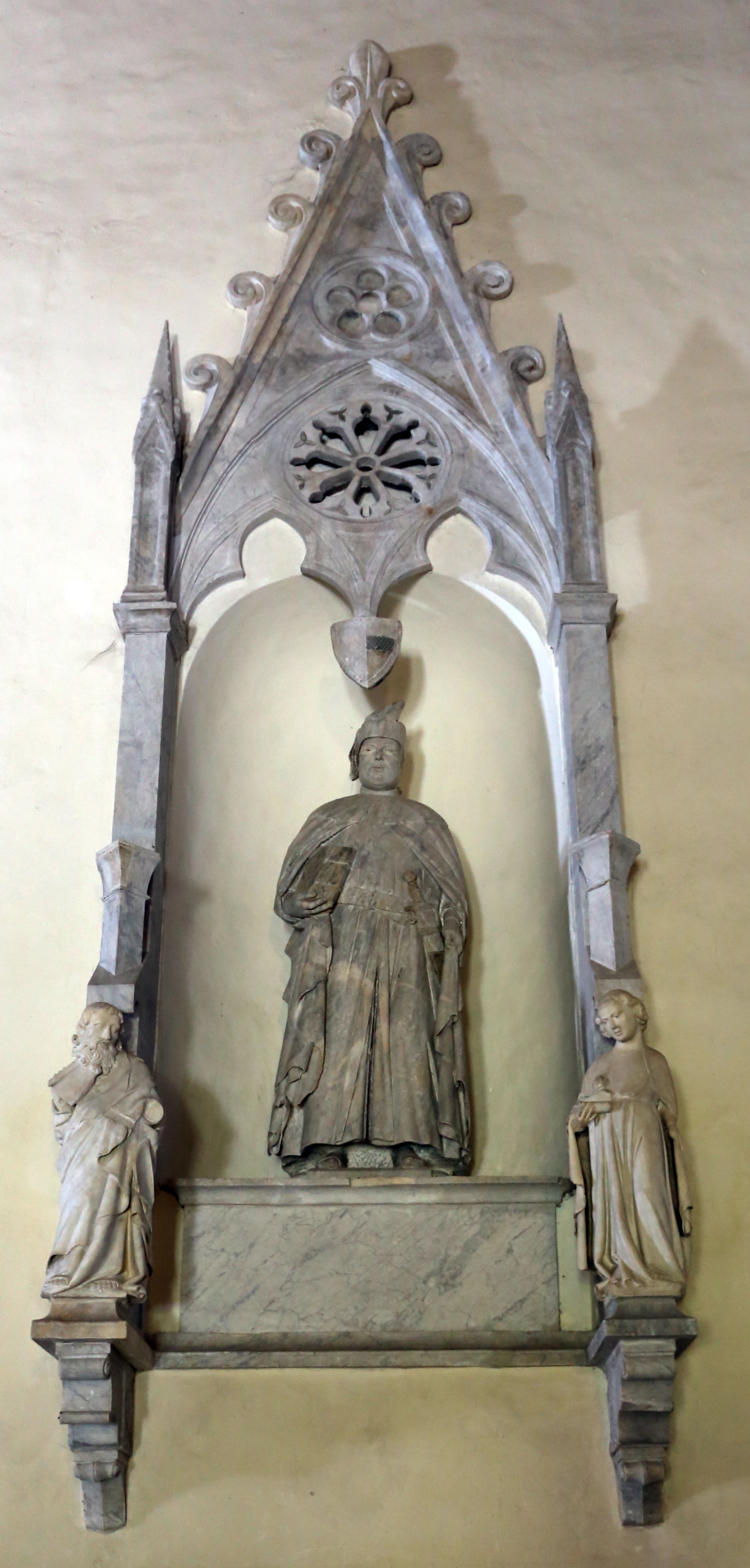 Santa Maria Assunta a Casole d'Elsa - Interior